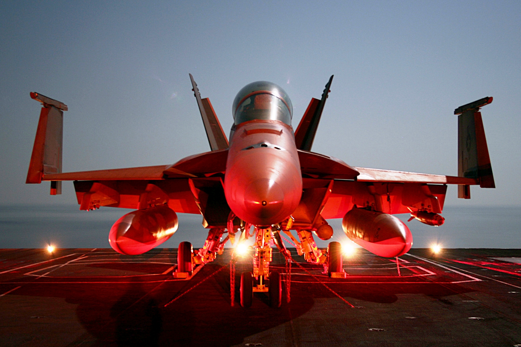 An F/A-18F Super Hornet Strike Fighter Squadron 103 is parked on the flight deck of the aircraft carrier USS Dwight D. Eisenhower (CVN 69) as the ship operates in the Arabian Sea on Dec. 5, 2006. The Eisenhower is in the Arabian Sea in support of maritime security operations.